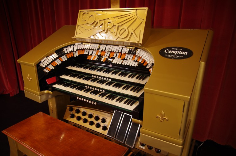 Midlands & Wales District Compton, Hampton-in-Arden, Fentham Hall. Originally installed in the Tower Cinema, West Bromwich. 3 Manuals, 11 Ranks, Melton, Digital Piano